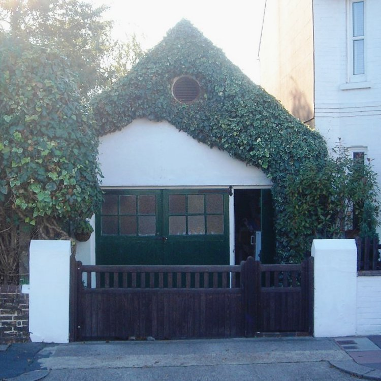 Former Ham Arch Mission Church, Ham Road, Worthing, West Sussex, England. Used for Church of England worship between 1884 and 1913. Now a workshop.